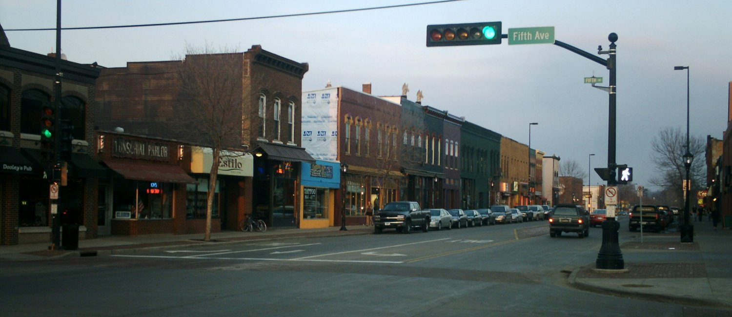 Water Street, Eau Claire, Wisconsin.